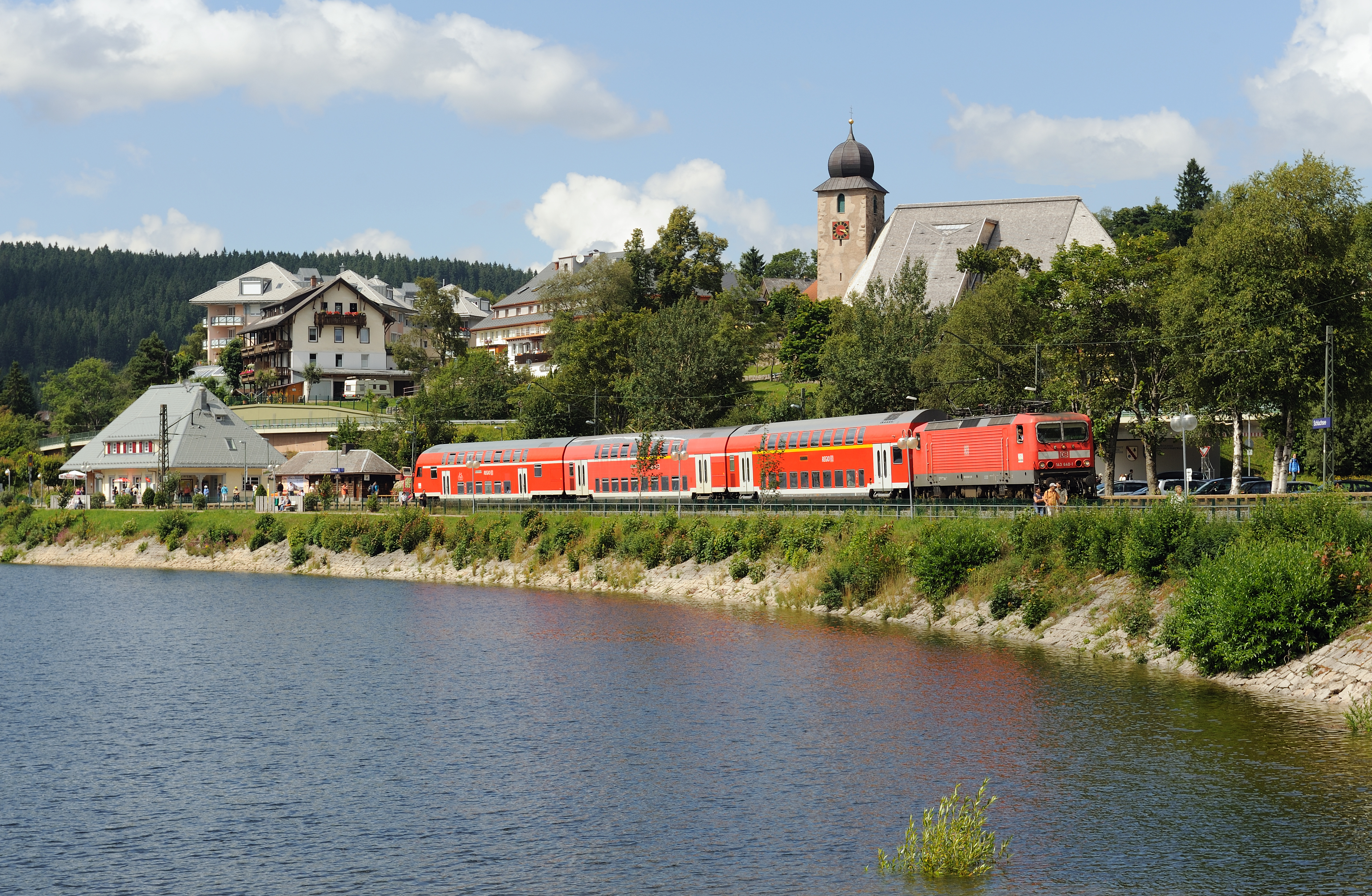 The village of Schluchsee on lake Schluchsee in the Black Forest, Germany.